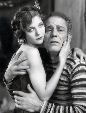 Loretta Young and Lon Chaney in the American drama film Laugh, Clown, Laugh (1928).